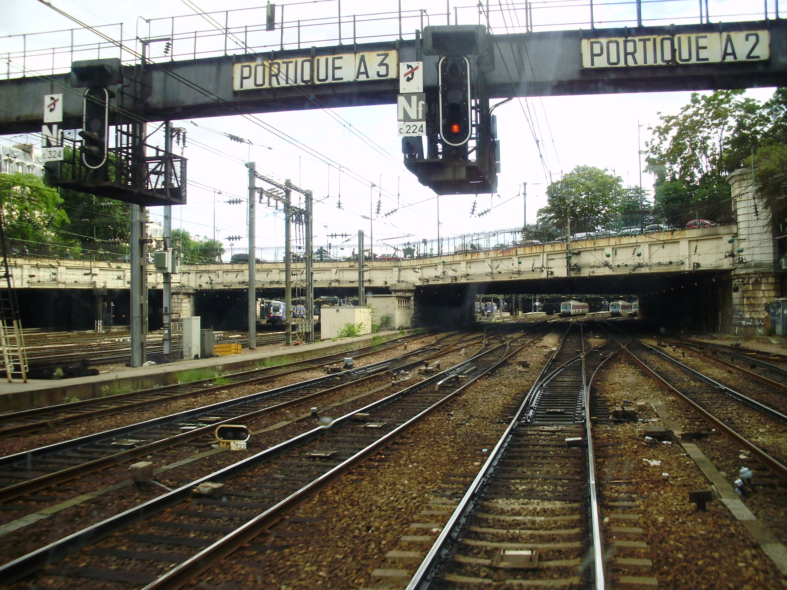 Tracks of the Paris-Saint-Lazare station, Paris 8e, France, seen before the Place de l'Europe bridge